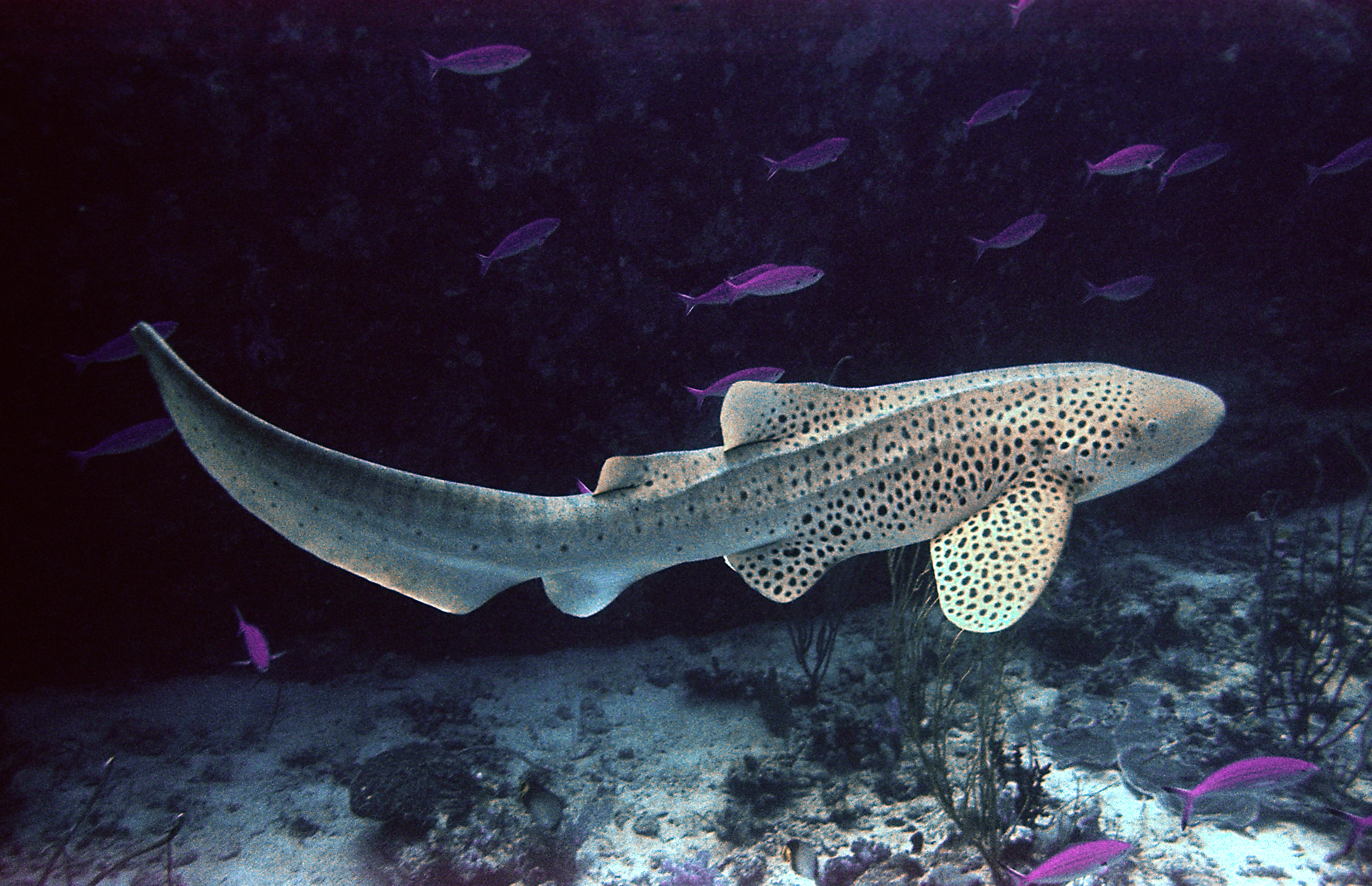 Zebra-shark (Stegostoma fasciatum) This is quite a big shark, normally about 2,3 m long. Half of this length belongs to the dorsal fin without lower paddle. Only young sharks look like zebras. They are brown above and yellowish below and have long yellow vertical stripes. While the shark grows and reaches the length of 50-90 cm the stripes become wider and bigger and the media between them breaks into small brown spots. Adult shark is yellow with many spots. They the more uniformly distributed the bigger the shark is. The biology of the zebra-shark is sketchy. The shark regularly has solitaire behavior but was seen also in groups. More active at nights. Feeds on mollusks and crabs. Looking for food zebra-shark is capable to squirm into crevices and tunnels. Prefers small depth (before 50 m). The foto I made when diving in Myanmar waters in 2007, december, with a boat from Phuket.